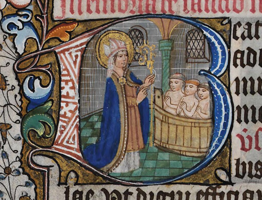 A medieval Book of Hours probably written for the De Grey family of Ruthin c.1390